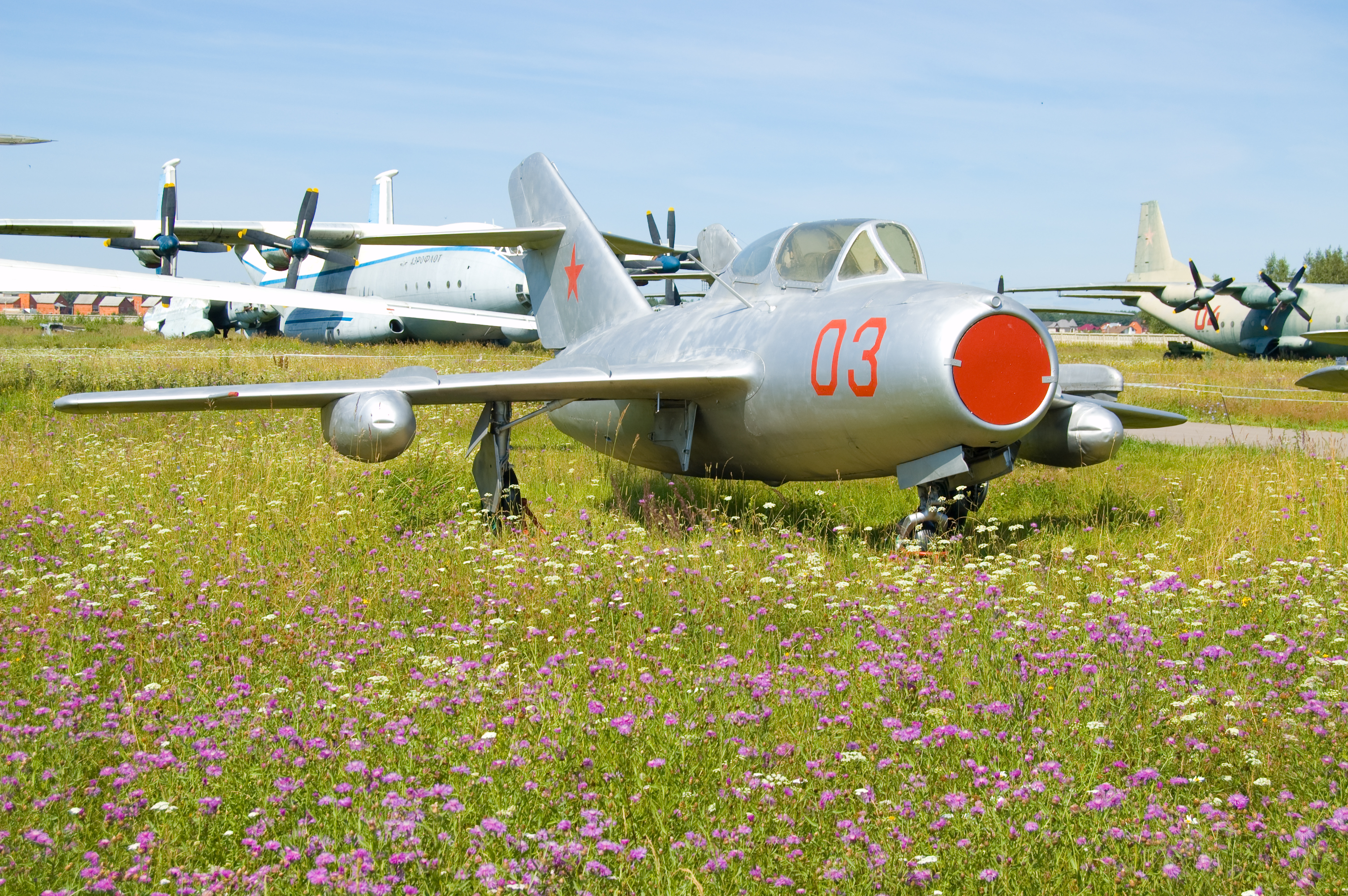 Trainer aircraft MiG-15UTI in Monino.